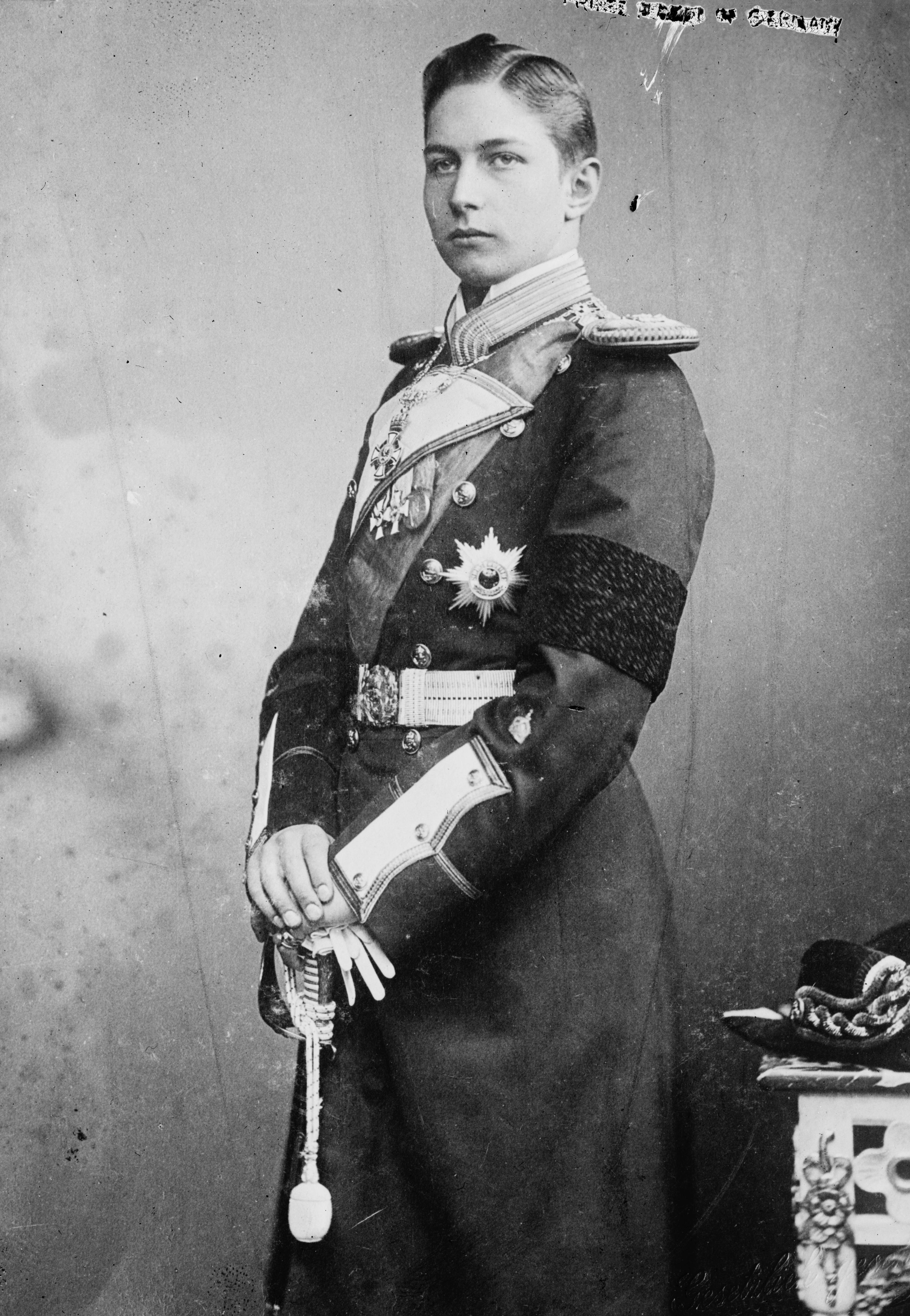 Prince Adalbert of Prussia (1884-1948).